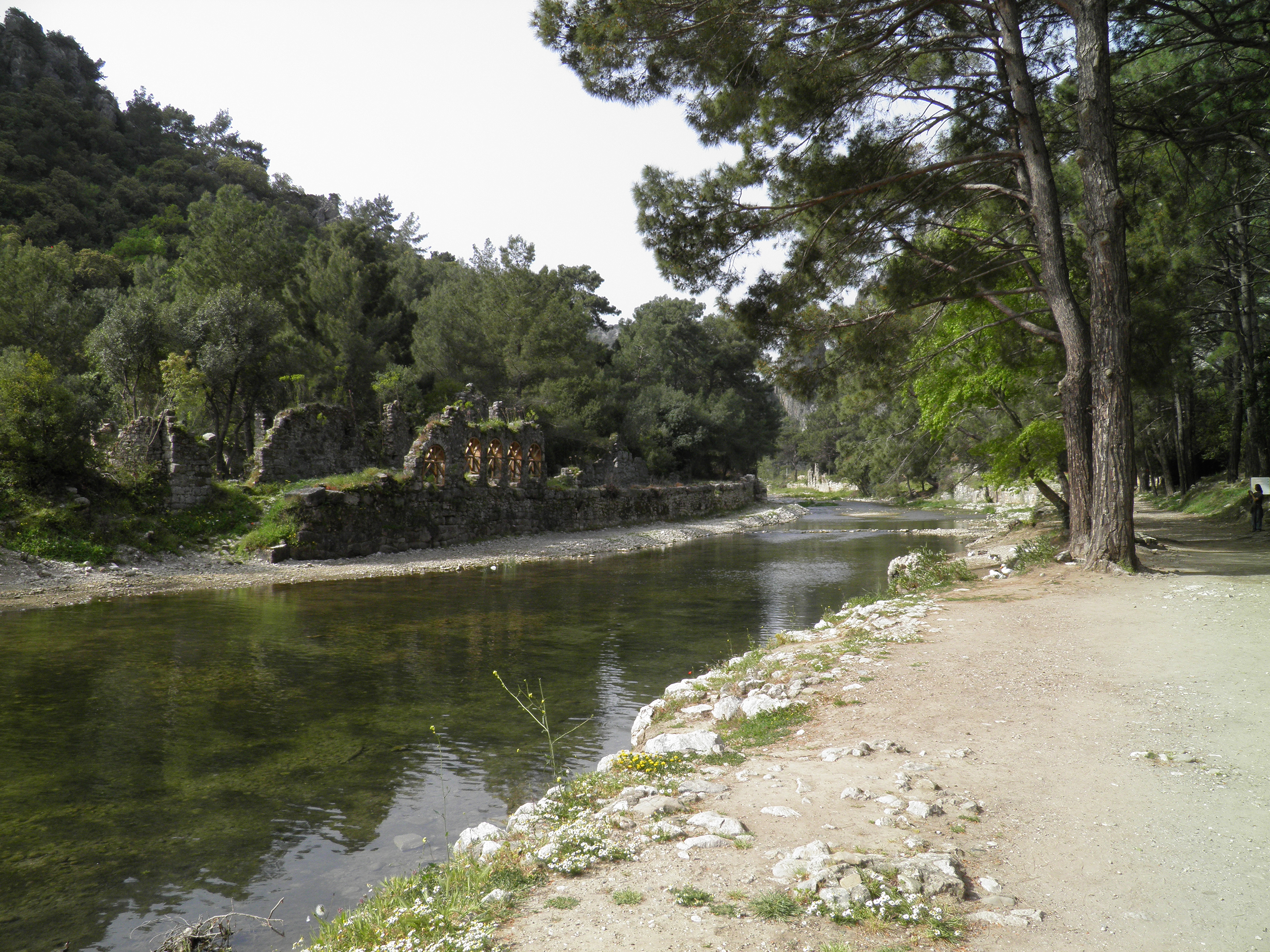 Olympos, Lycia, Turkey